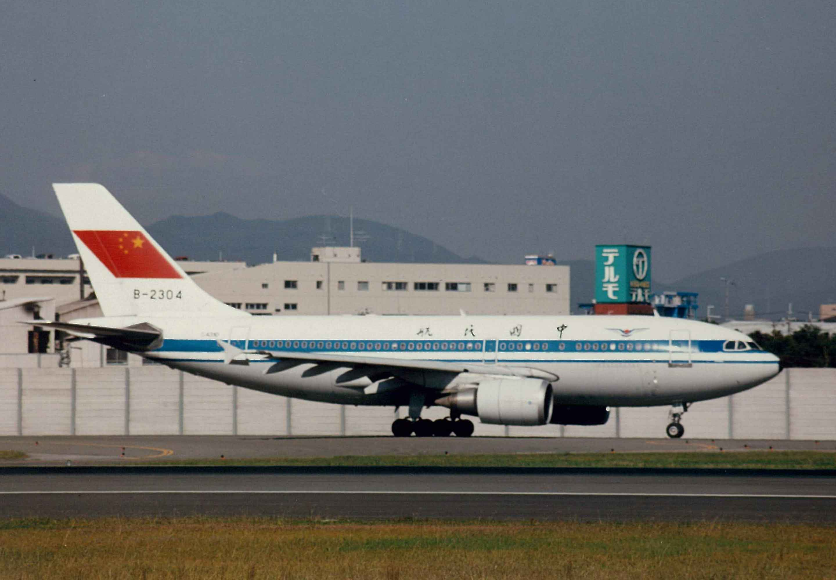 It is Airliners which it photographed in Itami, Osaka Airport.